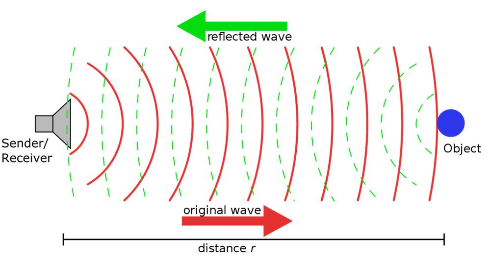 Vahcuengh: seabeam